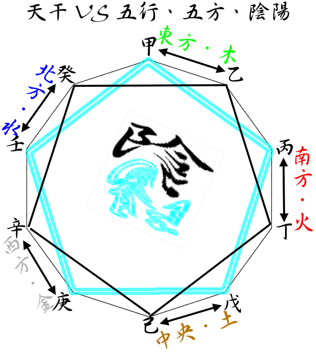 The relations of 10 heavenly stems with yin & yang, the five elements and the five directions.